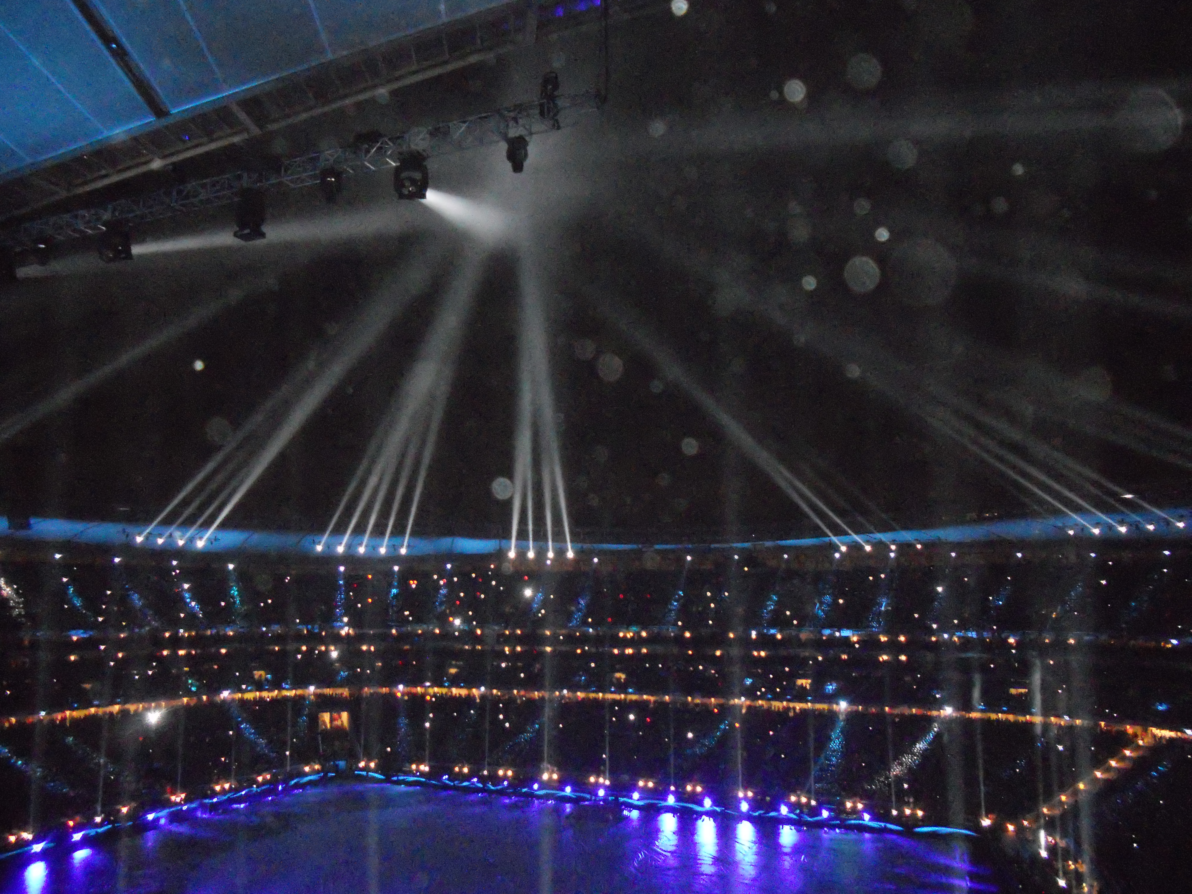 2010 FIFA World Cup Closing Ceremony at Soccer City.